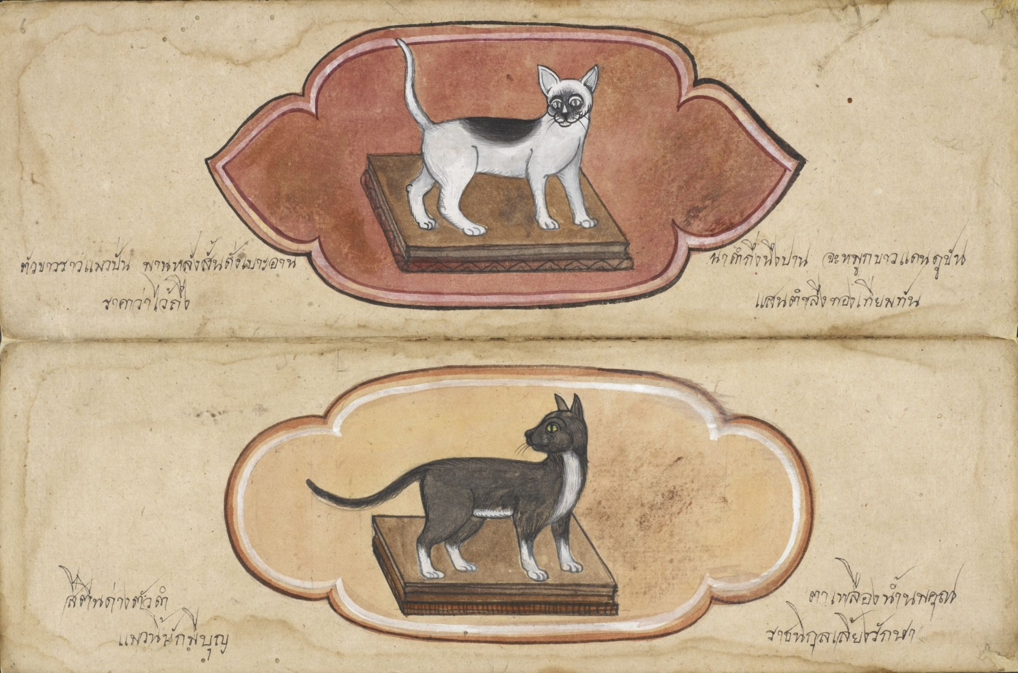 The image shows an illustration of two royal cats which are recommended for breeding. This forms part of a paper folding book with 23 illustrations of cats. from 19th century central Thailand. See more of the images from this manuscript on our Digitised Manuscripts website. (Original caption by the British Library, provided under the Creative Commons Attribution Licence.)